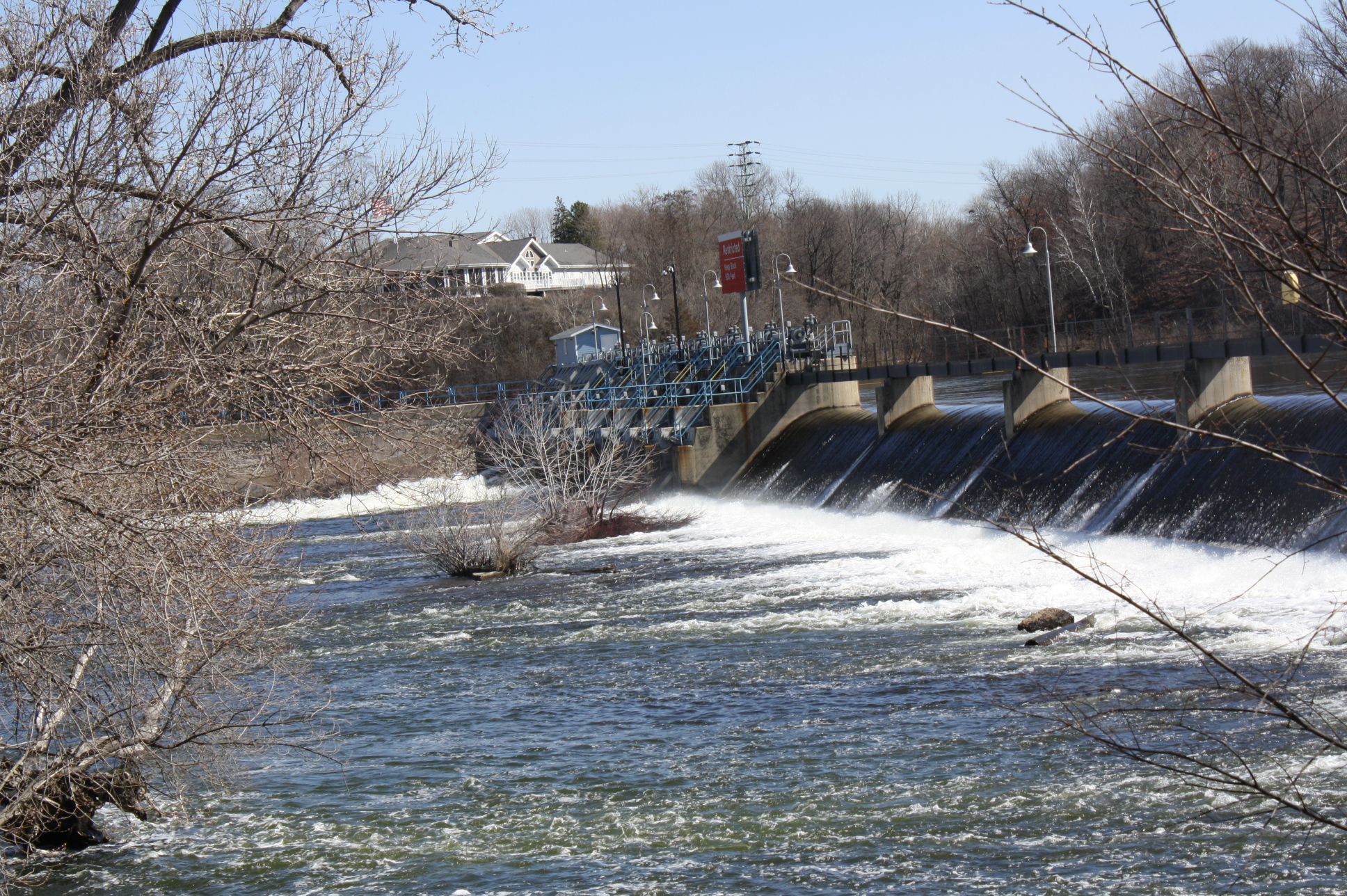 The #1 lock on the Fox River (Wisconsin) in Appleton, Wisconsin, listed on the National Register of Historic Places as the Appleton Locks 1-3 Historic District. This was the location used by the Vulcan Power Plant, which was used to power the Hearthstone Heritage House Museum, the first house using Edison's lightbulbs powered by hydroelectric electricity.